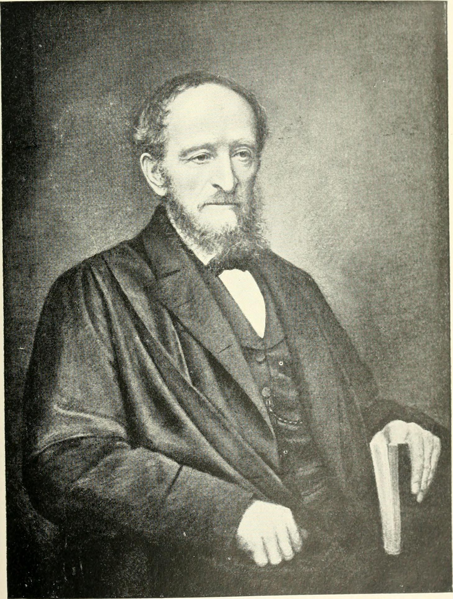 Title: Reminiscences of Oxford Year: 1900 (1900s) Authors: Tuckwell, William, 1829-1919 Subjects: University of Oxford Publisher: London (etc.) New York : Cassell and company Text Appearing Before Image: ^ obtained the Headship oftheir Colleges, both wrote in Essays and Re-views. Behind these accidents are life eqiiij)-nient, experiences, characters, temperaments,standing in phenomenal contrast. Pattisons Text Appearing After Image: MARK PATTISON. From a Portrait in the possession of Miss St:rke. PATTISON, THOMSON, GOULBURN, SEWELL. 217 mind was the more compreliensive, instructed,idealistic, its evolution as intermittent and self-torturing as Jowetts was continuous andtranquil. Pattisons Kfe, in its abrupt pre-cipitations and untoward straits, resembled themountain brook of Wordsworths solitary;Jowetts floated even, strong, and full, fromthe winning of the Balliol scholarship by thelittle white-haired lad with shrill voice andcherub face, until the Sunday afternoon atHeadley Park, when the old man, shrill, white-haired, and cherubic still, bade farewell to theCollege, turned his face to the wall, and died.To a College whose tutors were inefficientand its scholars healthy animals Pattisoncarried at eighteen years old a mass of un-digested reading, an intelligence half awakened,a morbid self-consciousness, a total T^ant of thepropriety and tact which a public school instils,but in which home training usually fai